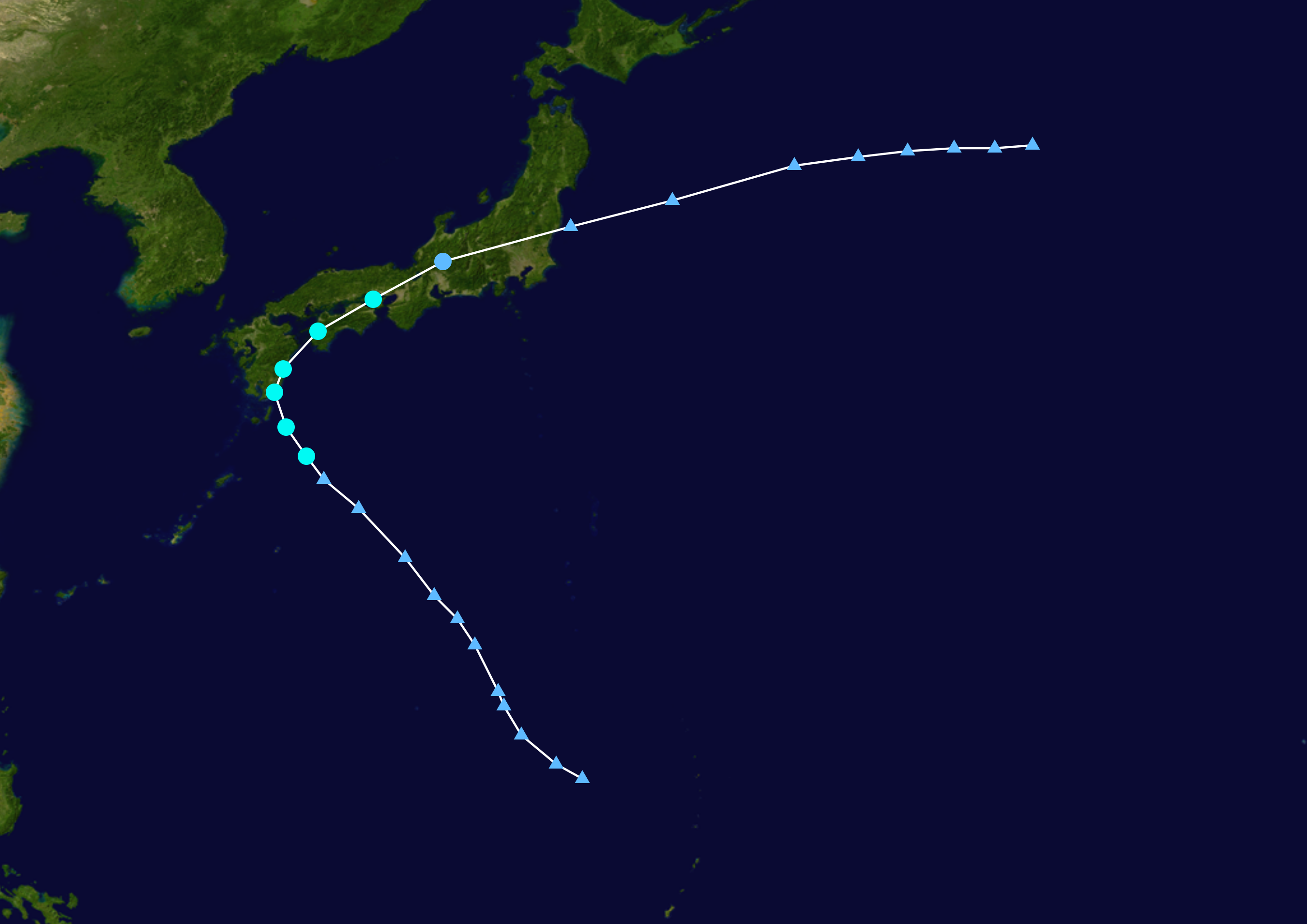 Track map of Tropical Storm Zia of the 1999 Pacific typhoon season. The points show the location of the storm at 6-hour intervals. The colour represents the storm's maximum sustained wind speeds as classified in the Saffir–Simpson scale (see below), and the shape of the data points represent the nature of the storm, according to the legend below. Saffir–Simpson scale Tropical depression≤38 mph≤62 km/h Category 3111–129 mph178–208 km/h Tropical storm39–73 mph63–118 km/h Category 4130–156 mph209–251 km/h Category 174–95 mph119–153 km/h Category 5≥157 mph≥252 km/h Category 296–110 mph154–177 km/h Unknown Storm type Tropical cyclone Subtropical cyclone Extratropical cyclone / Remnant low / Tropical disturbance / Monsoon depression